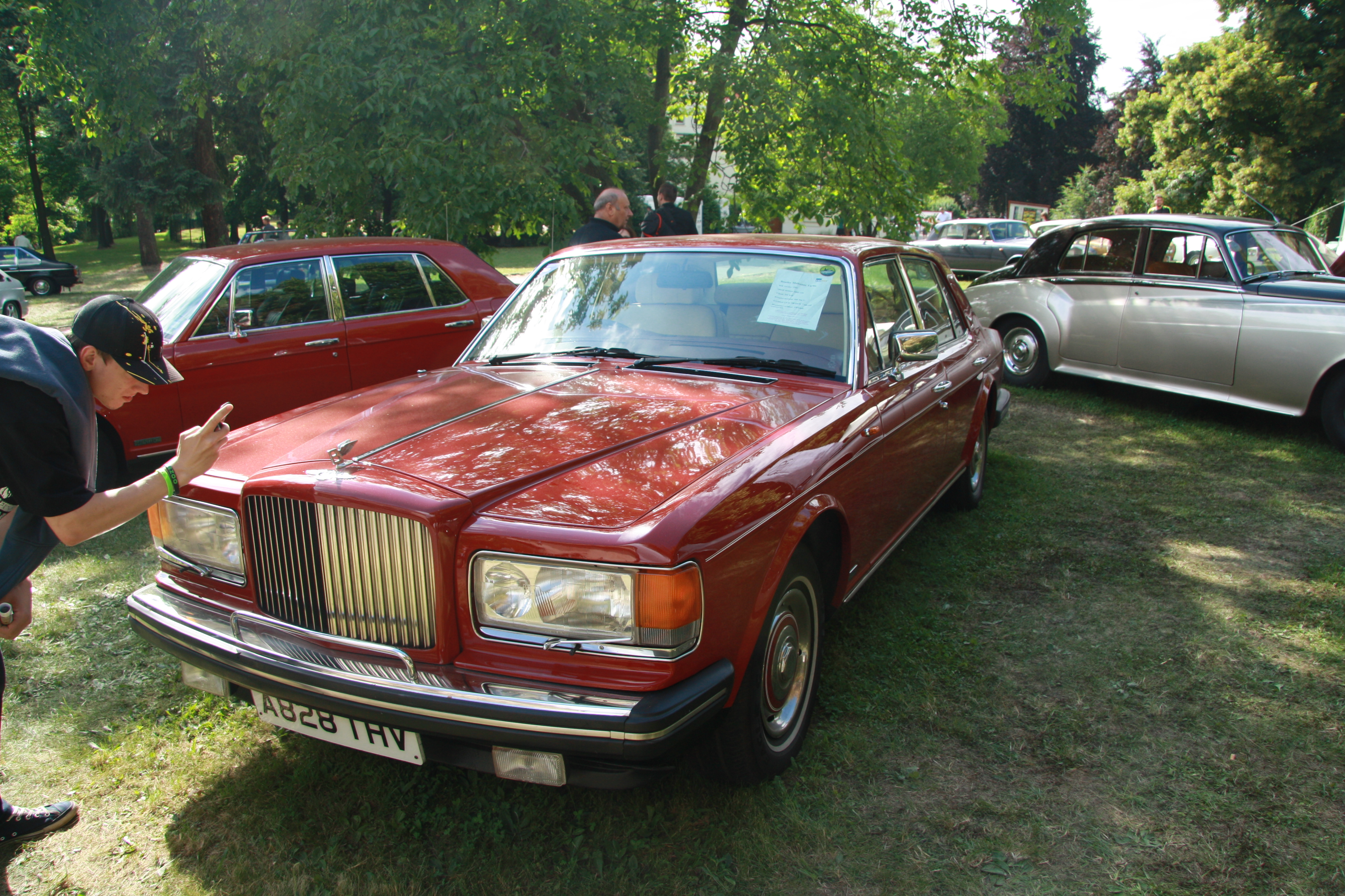 Bentley Mulsanne Turbo at Legendy 2014.